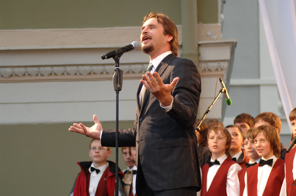 Dalia Grybauskaitė Presidential inauguration, Lithuania, 2009-07-12 Marijonas Mikutavičius